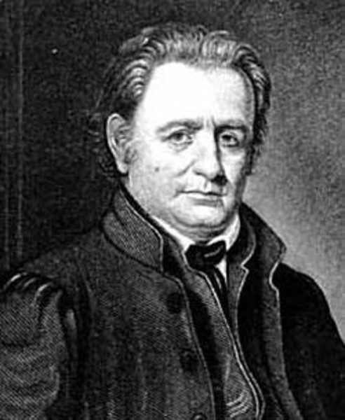 James Findlay, Cincinnati mayor and Ohio congressman (1770-1835)